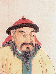 Yesugei, the Father of Genghis Khan